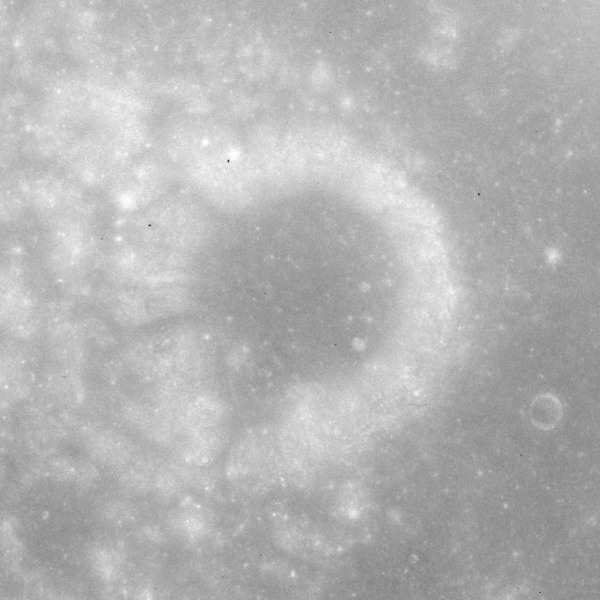 Stewart crater, the moon. Rotated so that north is at top.